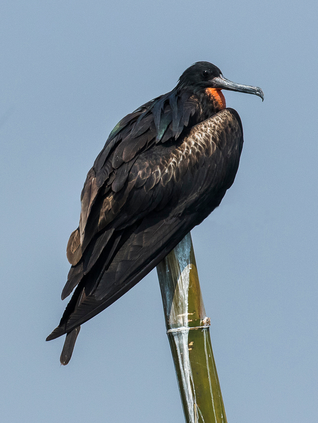 Christmas Island Frigatebird male - Jakarta Bay, Indonesia